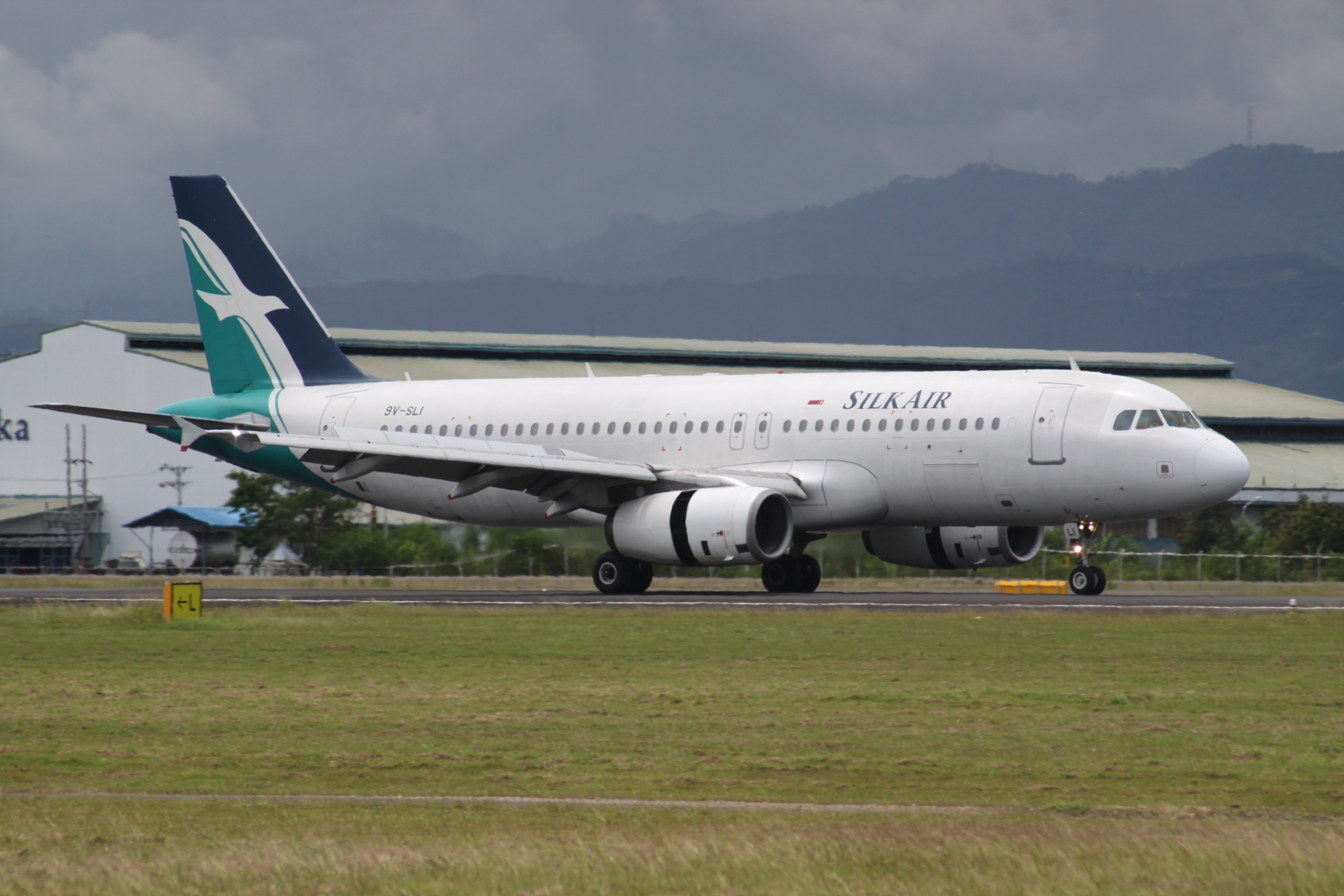 At Mactan-Cebu International Airport